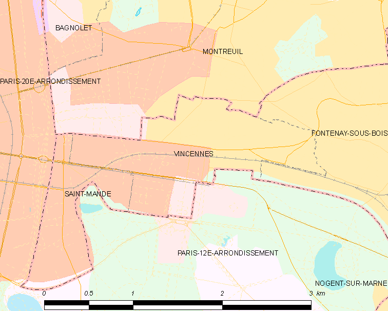 Map of French municipality Vincennes